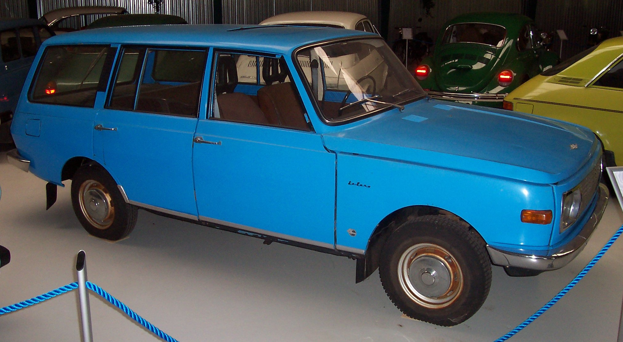 Wartburg 353 Tourist estate car. Location: Vestsjaellands Bilmuseum, Hoeng, Denmark